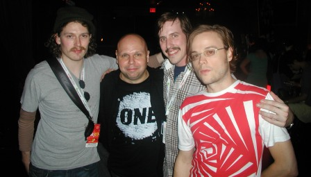 Matt Pinfield with BWY